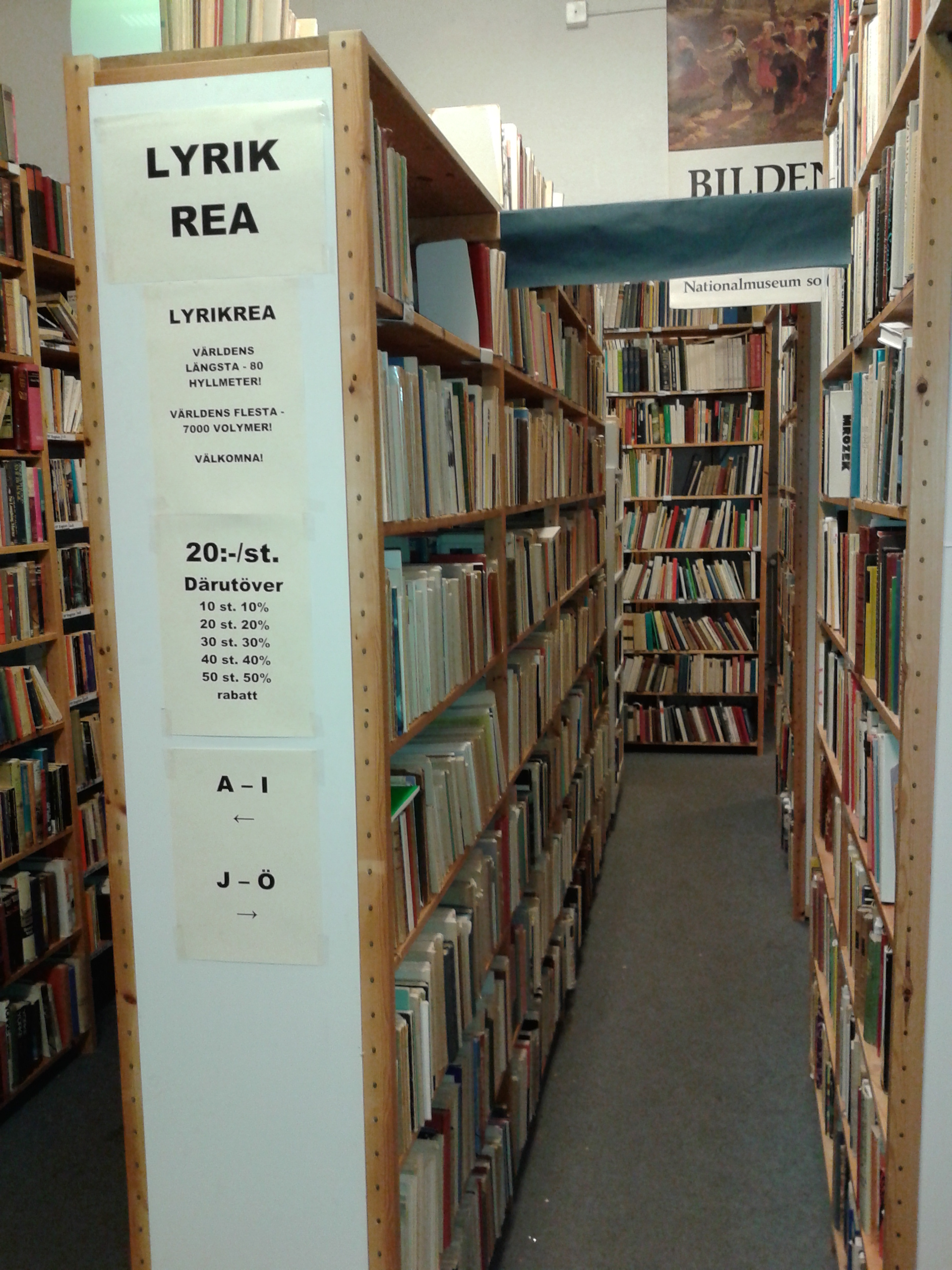 Claimed to be the worlds largest (80 linear metres of shelving, 7000 volumes) poetry sale (20 SEK per volume, roughly US$3 or 2.50 €) at an antiquarian bookstore in Stockholm, Sweden, in January 2014.